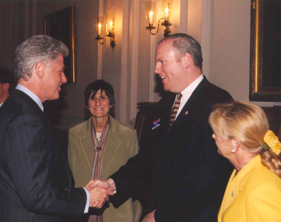 Congressman Joe Crowley meets with President Clinton to discuss efforts to pass a Patients' Bill of Rights. They are joined by Reps. Rosa DeLauro (CT) and Carolyn McCarthy (Mineola, NY)